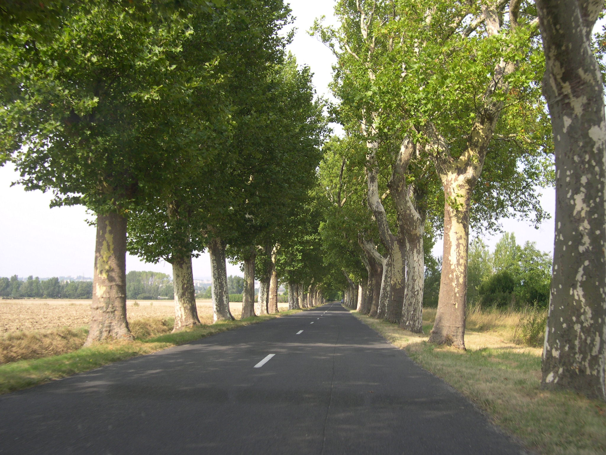 A typical French rural road near Castelnaudary.